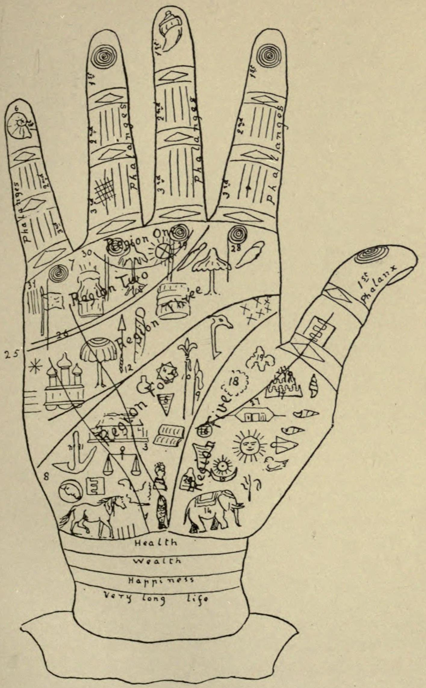 Illustration in book Indian Palmistry